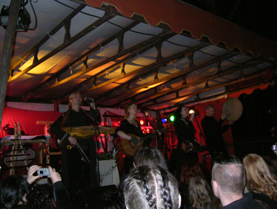 Faun live at the 14th WGT, 2005, Leipzig moved from DE to Commons photographed by myself